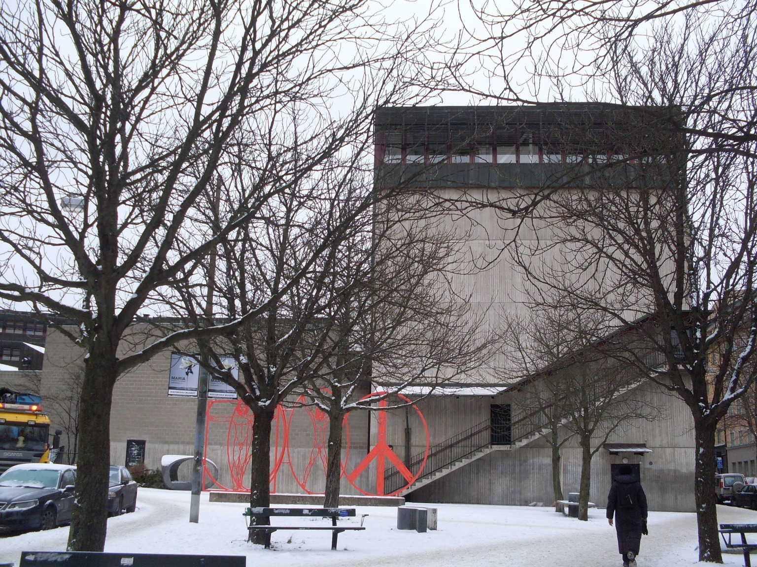 The School of Architecture of the Royal Institute of Technology, Stockholm, seen from Karlavägen